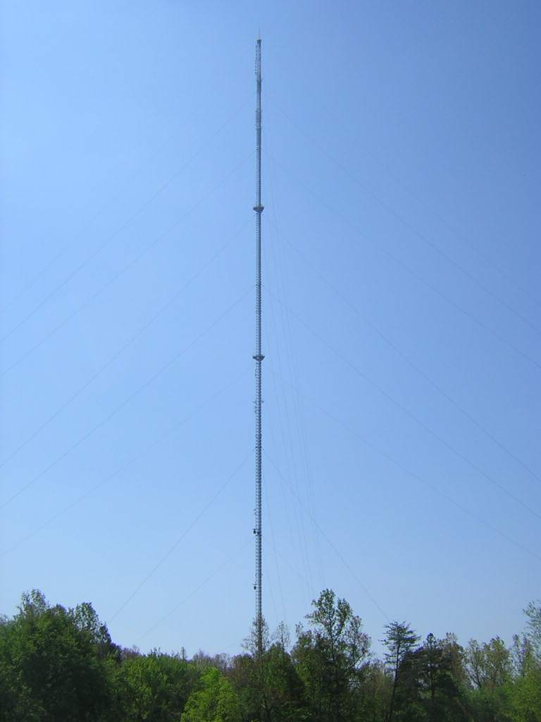 The 2,000 feet tall WJZY tower from about 1/3 mile away. Taken 400 feet down the driveway (entrance on Old Willis School Rd), on 4-28-2007.